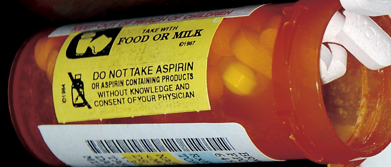 This file was derived from: USMC-100209-M-1998T-001.jpg